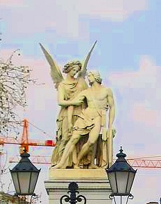 Palace Bridge in Berlin, Nike assists the wounded warrior by Ludwig Wilhelm Wichmann, 1853